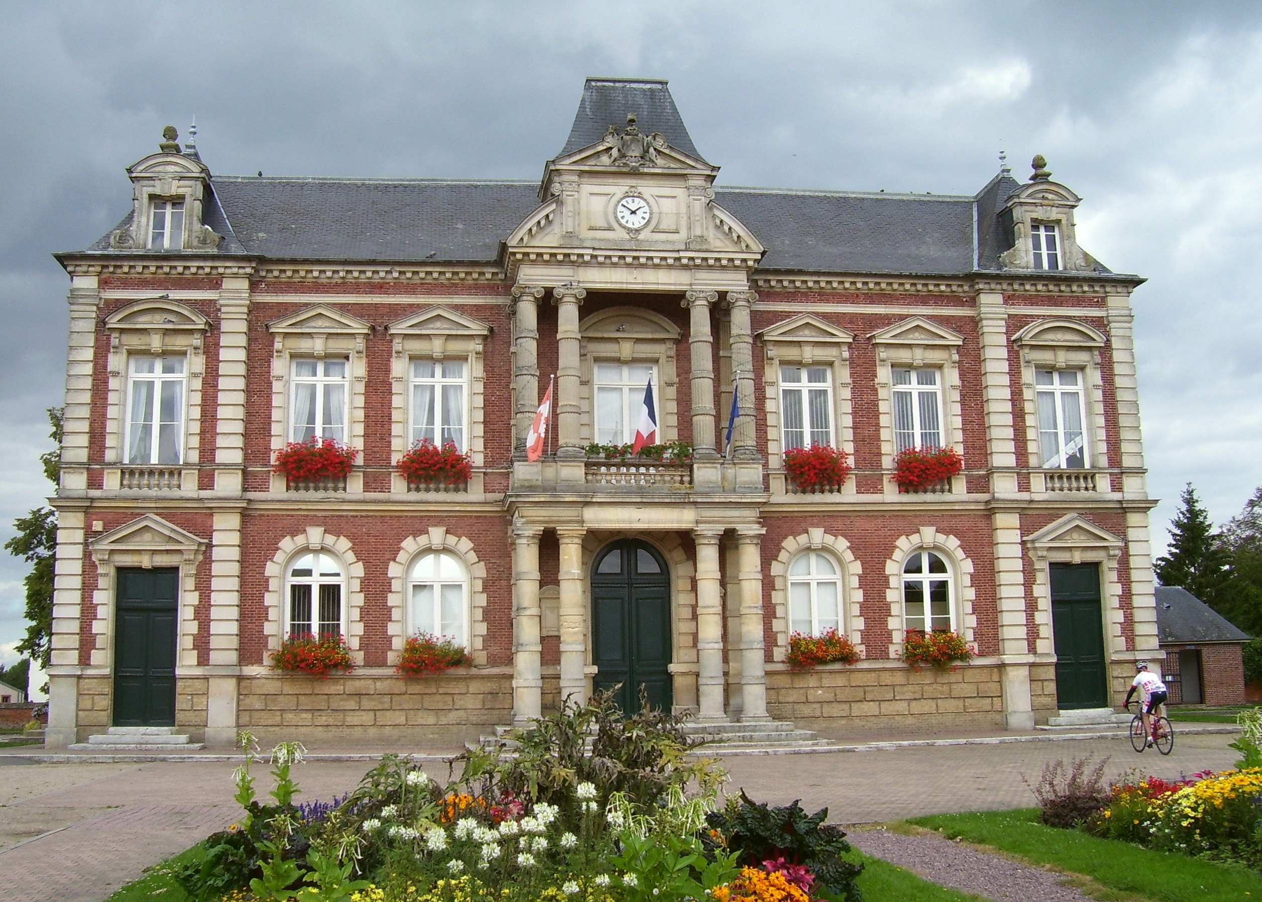 Town hall of Bourgtheroulde-Infreville (Eure, France).